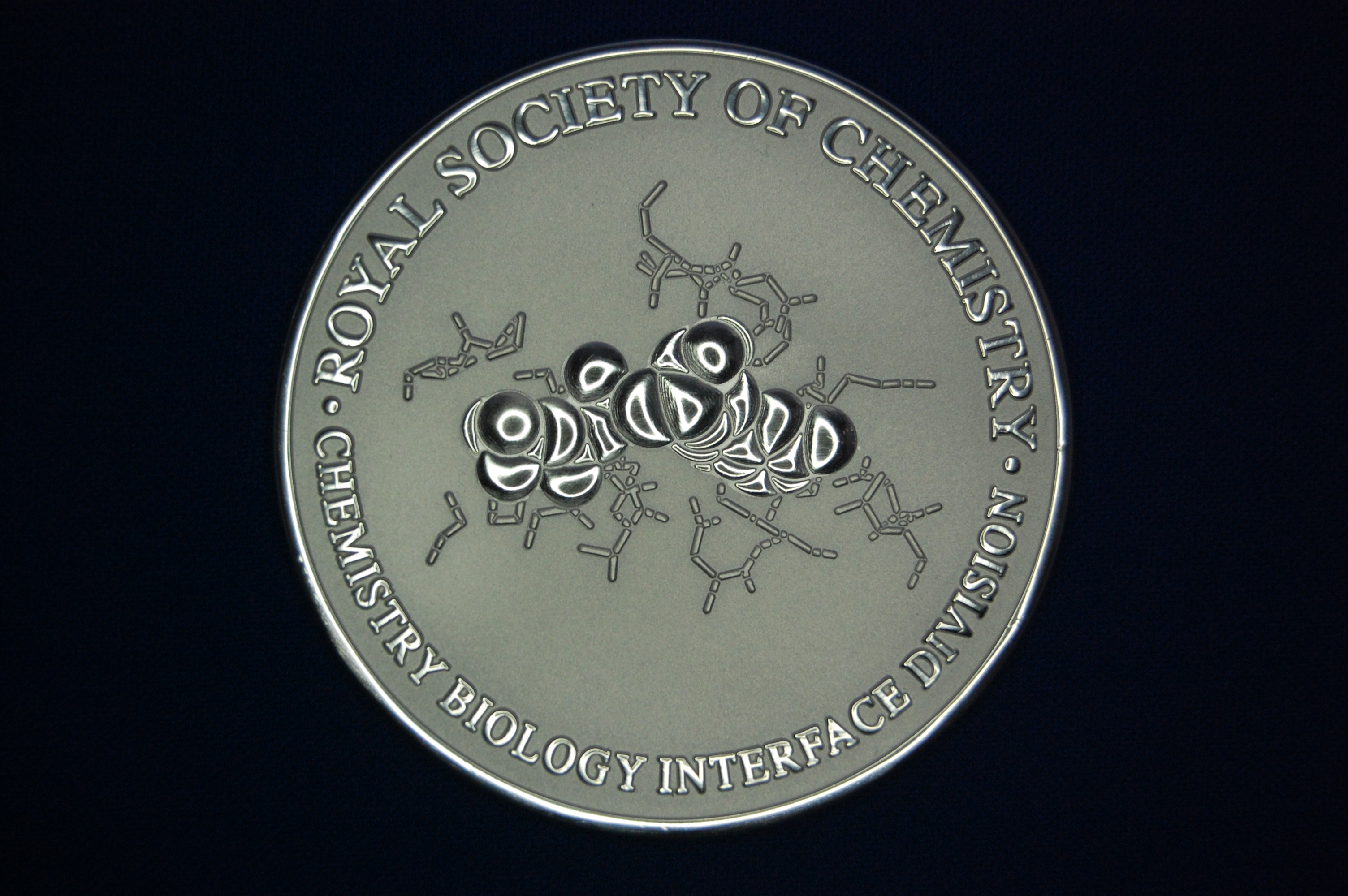 The Royal Society of Chemistry's Jeremy Knowles Award - 2014 - obverse